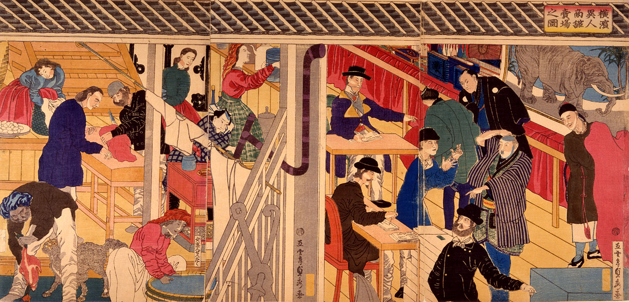 Foreign traders in Yokohama.